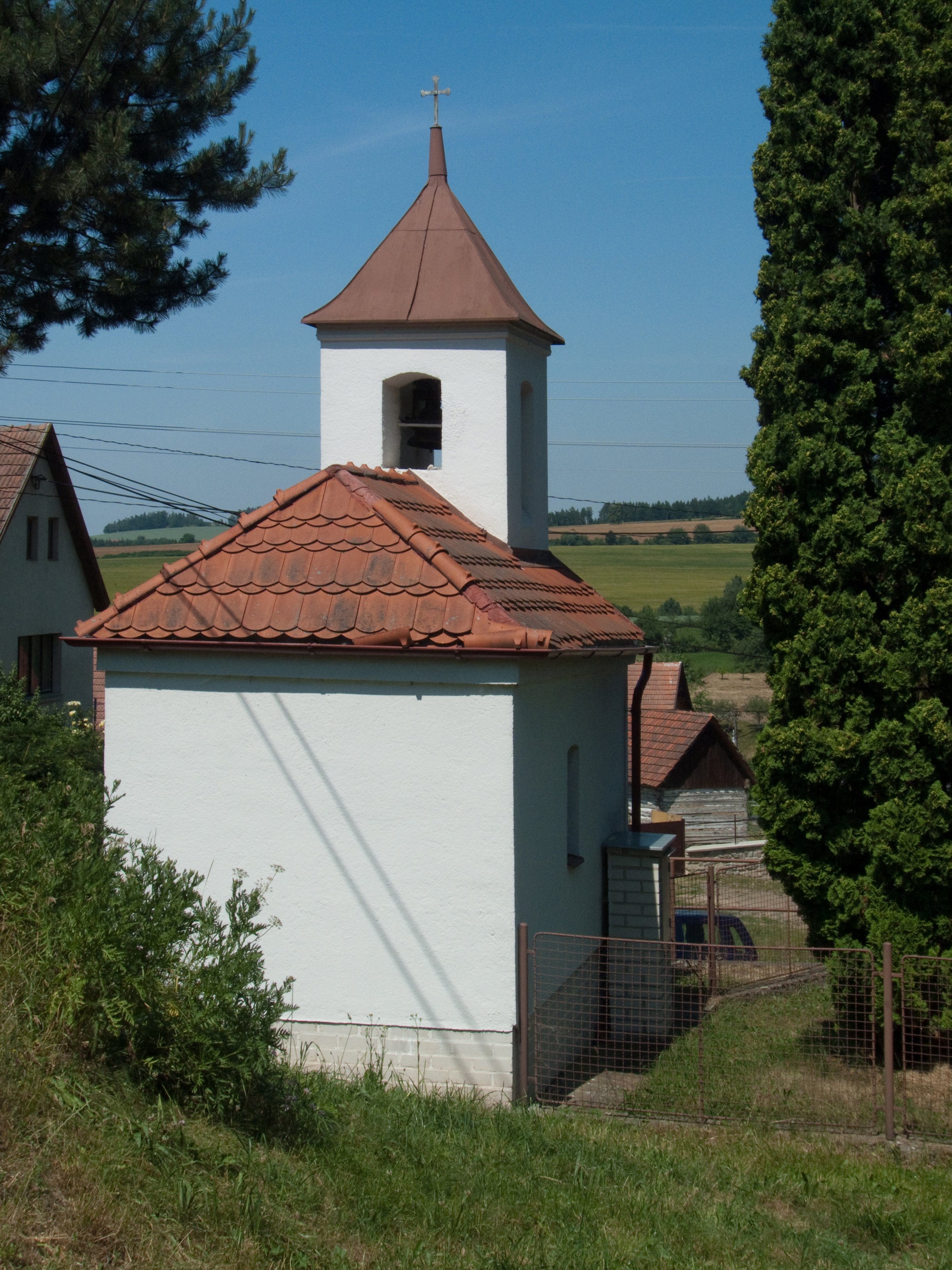 Chapel in the village of Pavlovice, Benešov district, Czech Republic as seen from the south